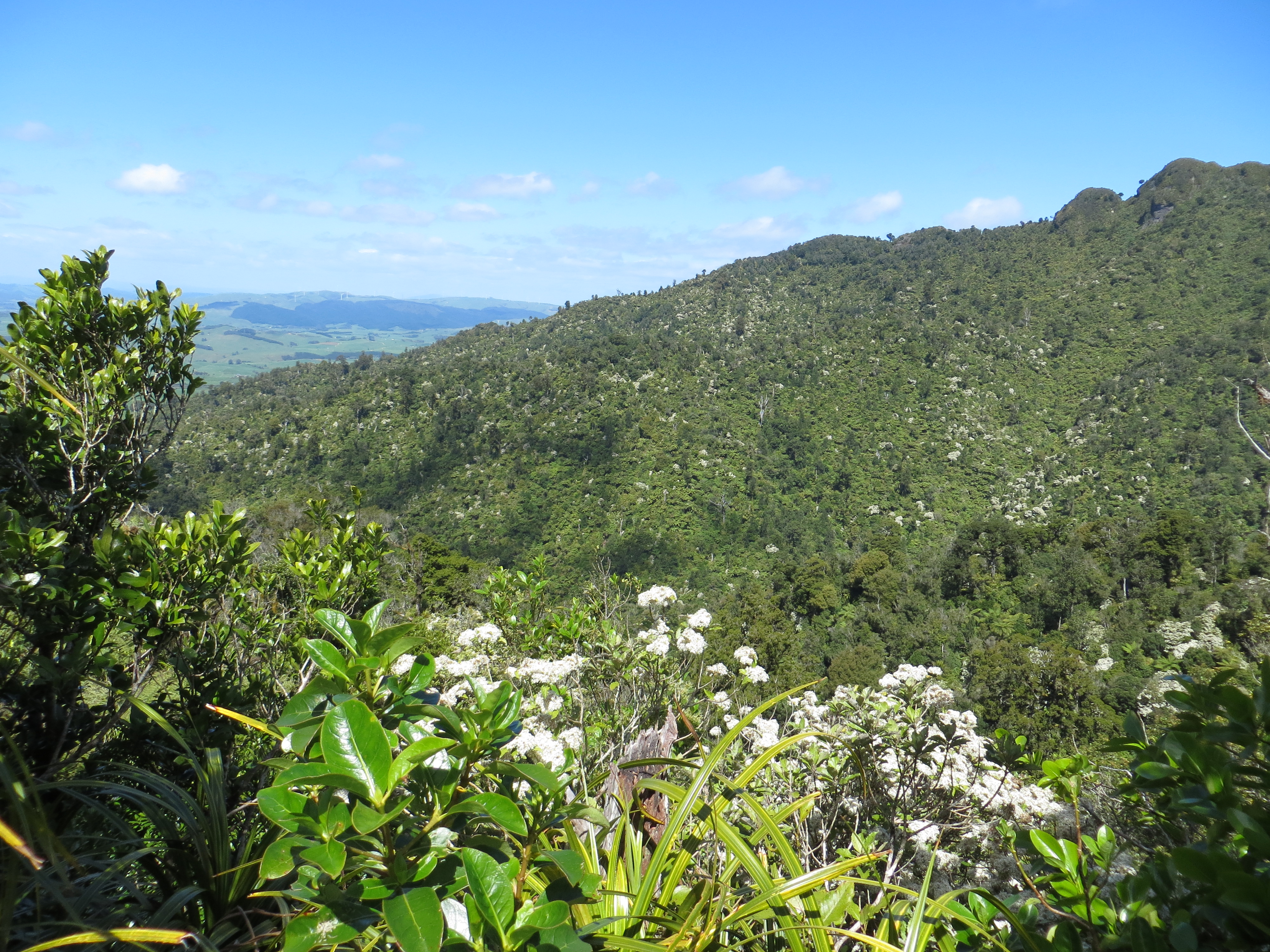 possum control has allowed species such as this to recover